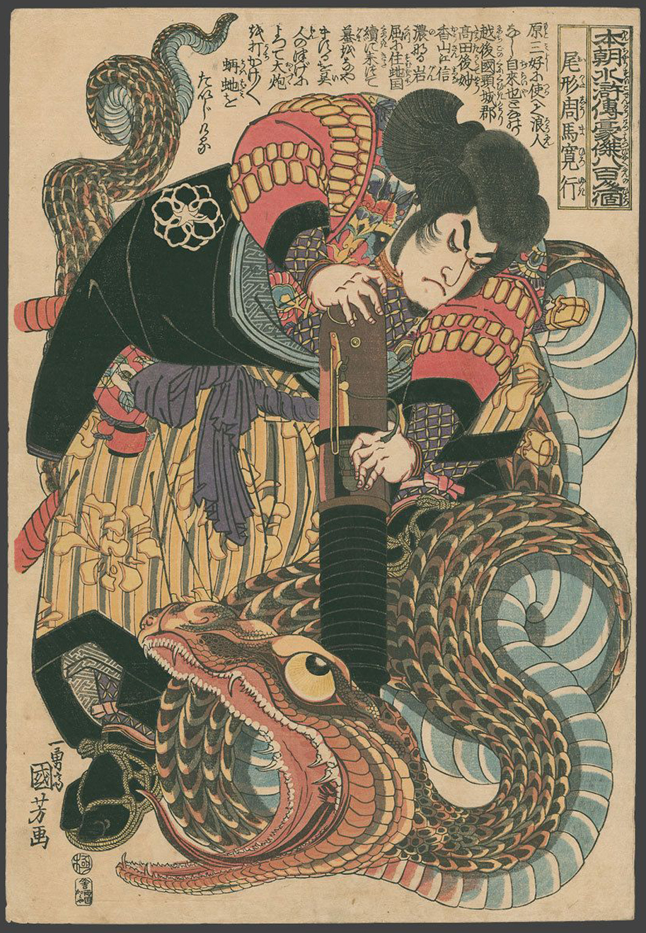 Ogata Shuma Hiroyuki (later known as Jiraiya) with a Heavy Gun Overcoming a Huge Snake Which Tried to Eat His Friends, the Magic Toads. Jiraiya is portrayed as being a ninja. Woodblock size: 39.1 x 26.9 cm. (15.4 x 10.6 in.)